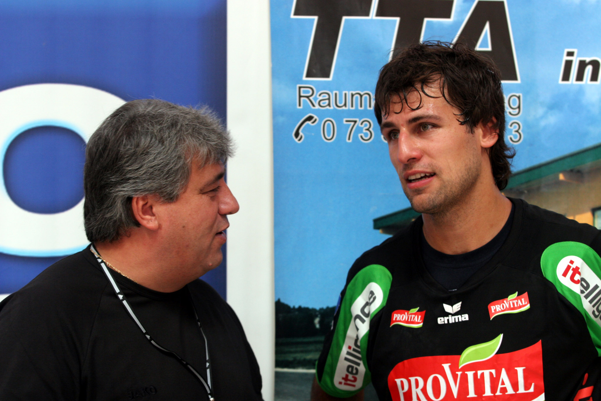 Lajos Mocsai und Tamás Mocsai, on August 30th, 2008 in Ehingen prior a game for the Schlecker Cup 2008